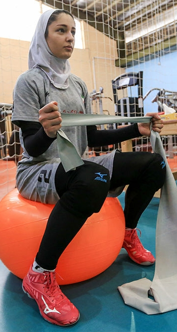 Iranian national volleyball team - 1398